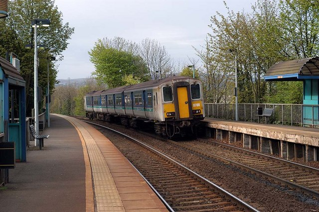 Hilden railway station Original description: Hilden Station Railcar approaching Hilden Station from Belfast